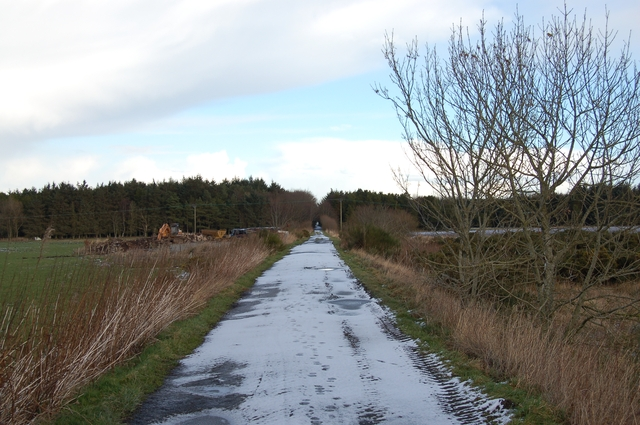 Formatine and Buchan Way at Logierieve